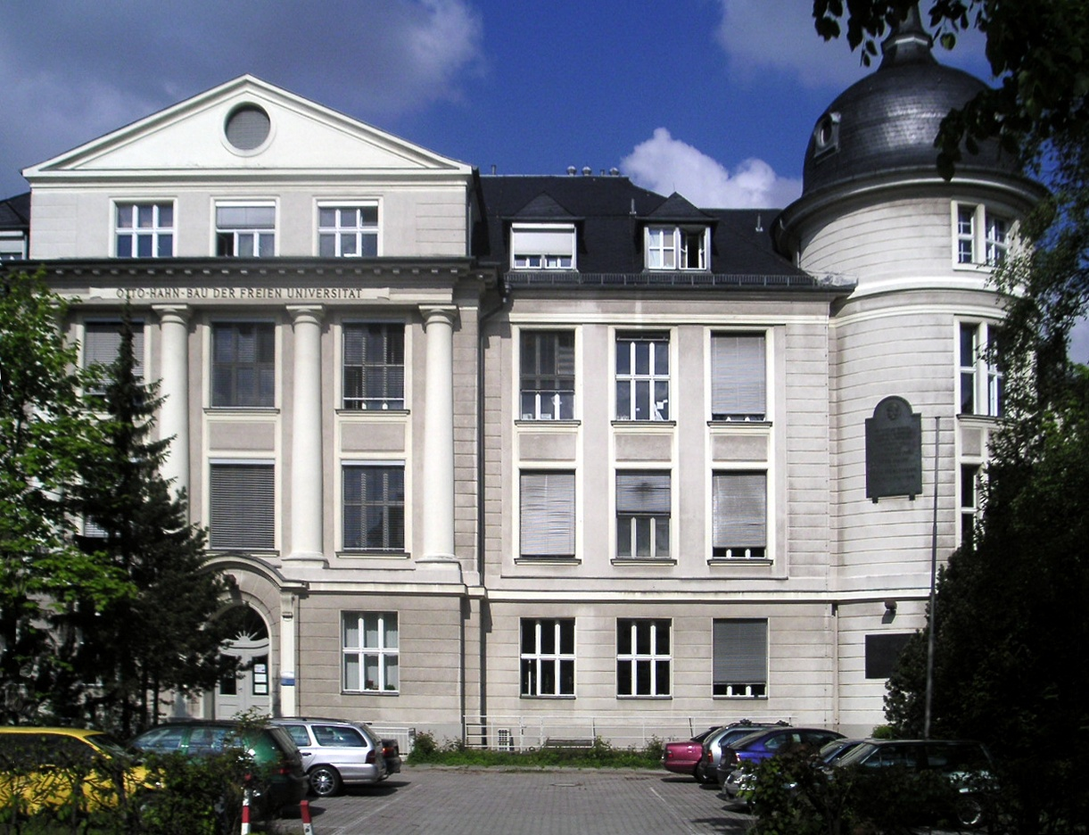 Free University of Berlin, Germany: Otto-Hahn-Building (Institute for Chemistry - Dept. of Biochemistry) / 1911-1948: Kaiser-Wilhelm-Institute for Chemistry. / Place where the nuclear fission was discovered.